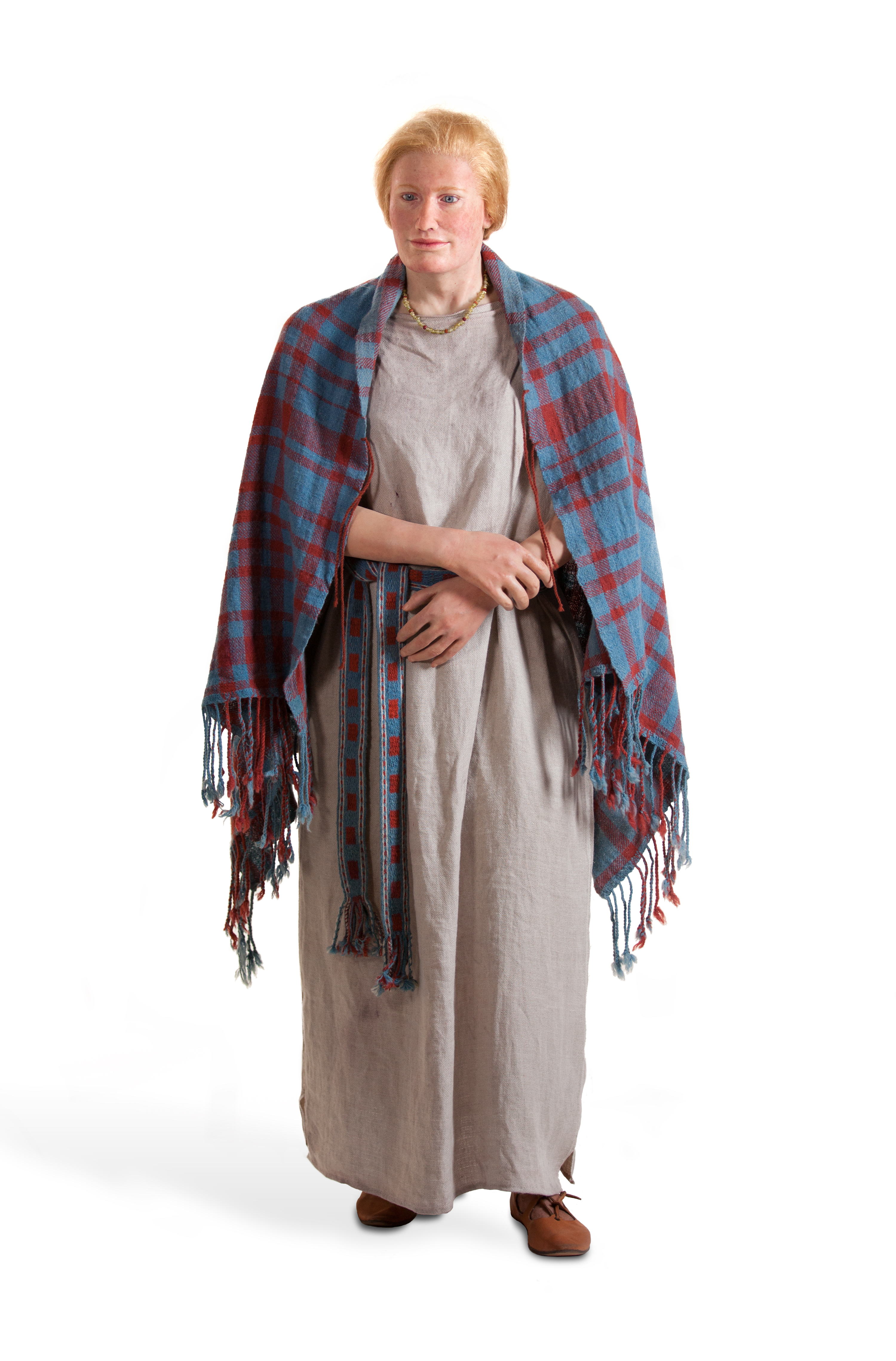 Model of an early medieval woman, with a facial reconstruction based on a skeleton found in Castricum in the Netherlands